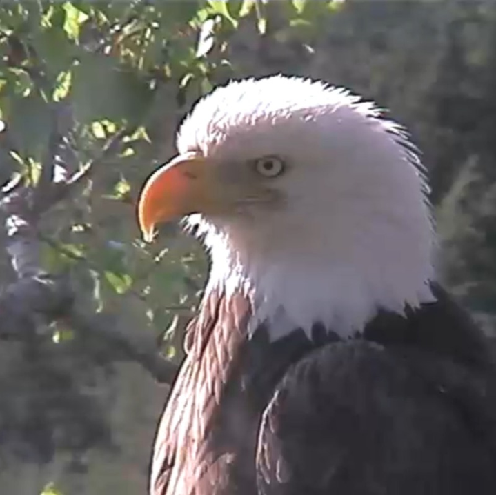 Male Decorah Bald Eagle, December 2012 screenshot taken from Ustream.tv